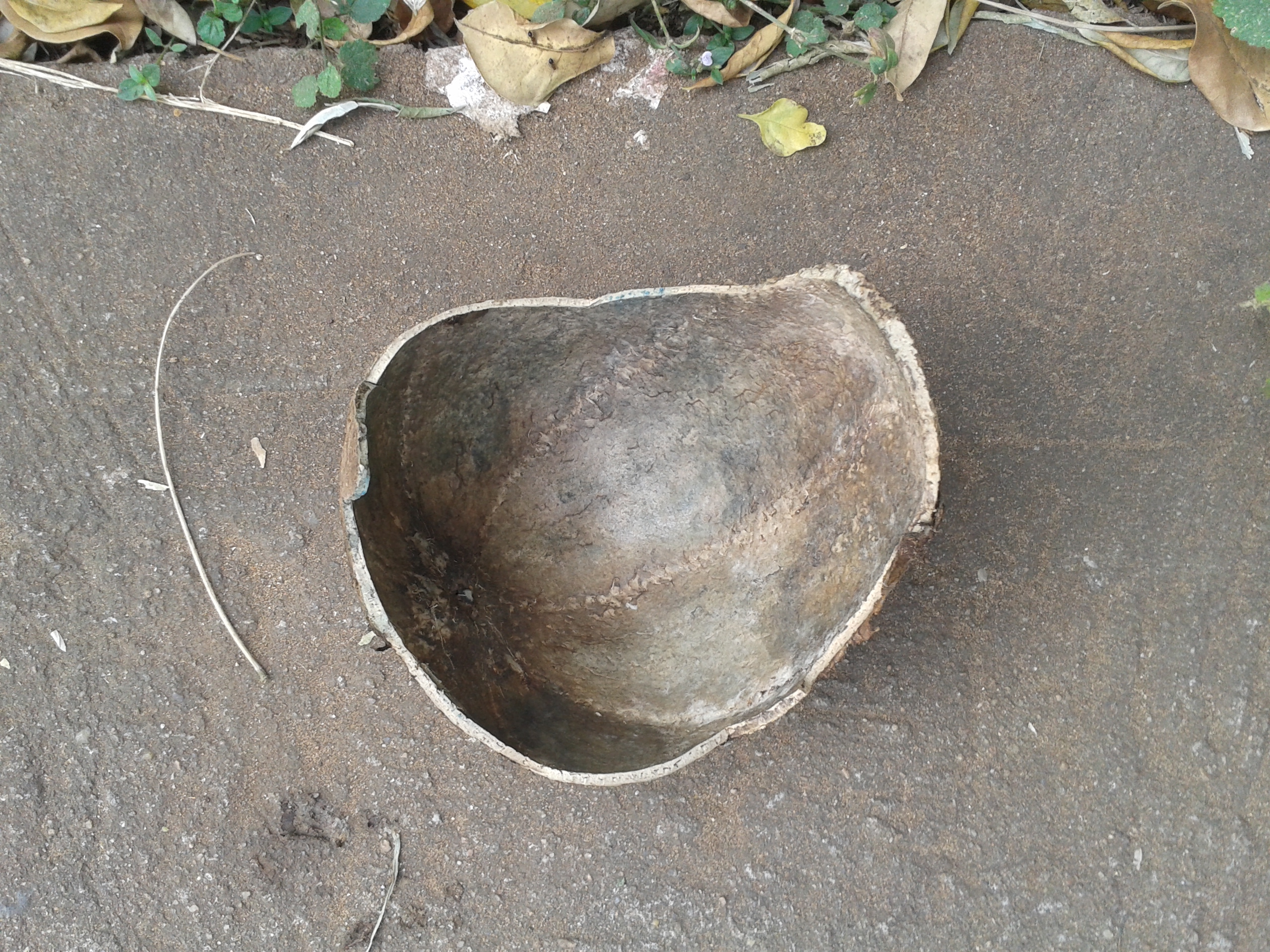 (Couroupita guianensis) Cannon ball tree bush at Kakinada Gandhinagar park, Andhra Pradesh